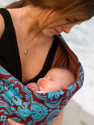 Heavenly Bundle pouch sling